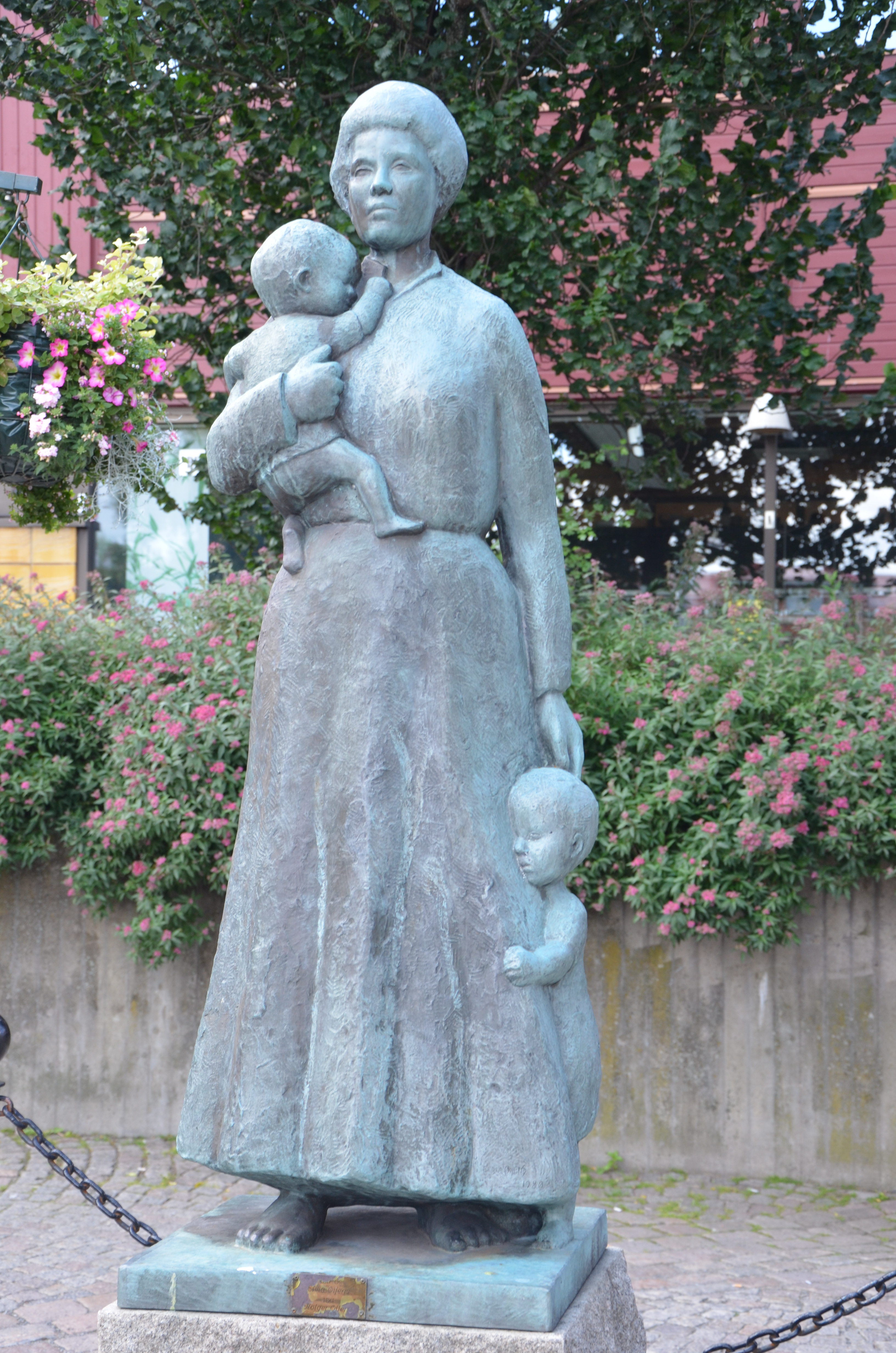 Elma Oijens Arbetarhustru, brons, 1980, Kapellplatsen, Landala, Göteborg